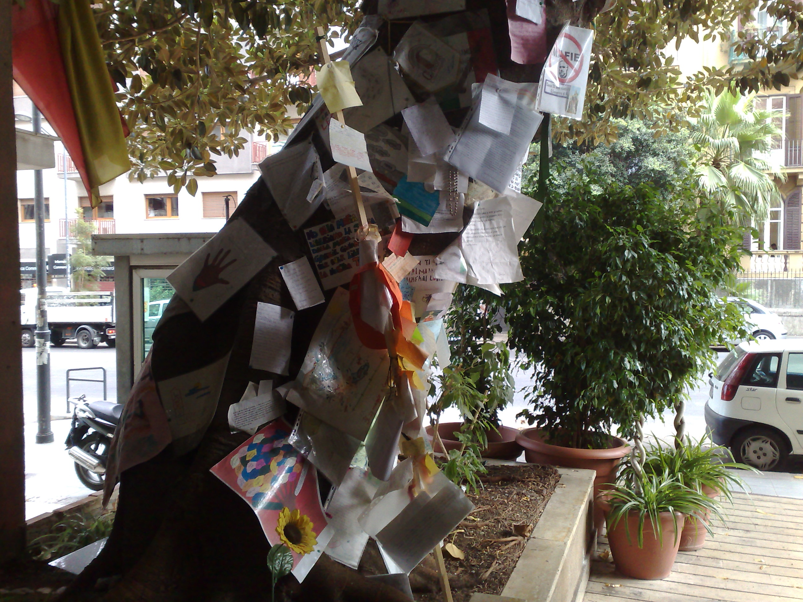 Giovanni Falcone memorial tree, in Palermo